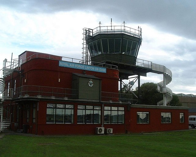 Air Traffic Control, RAF Linton-on-Ouse You can just make out that the Visual Control Room is on "stilts". This is because the tower, which is pre-WWII, does not have a load-bearing roof. On the ground floor to the left is the Met Office.